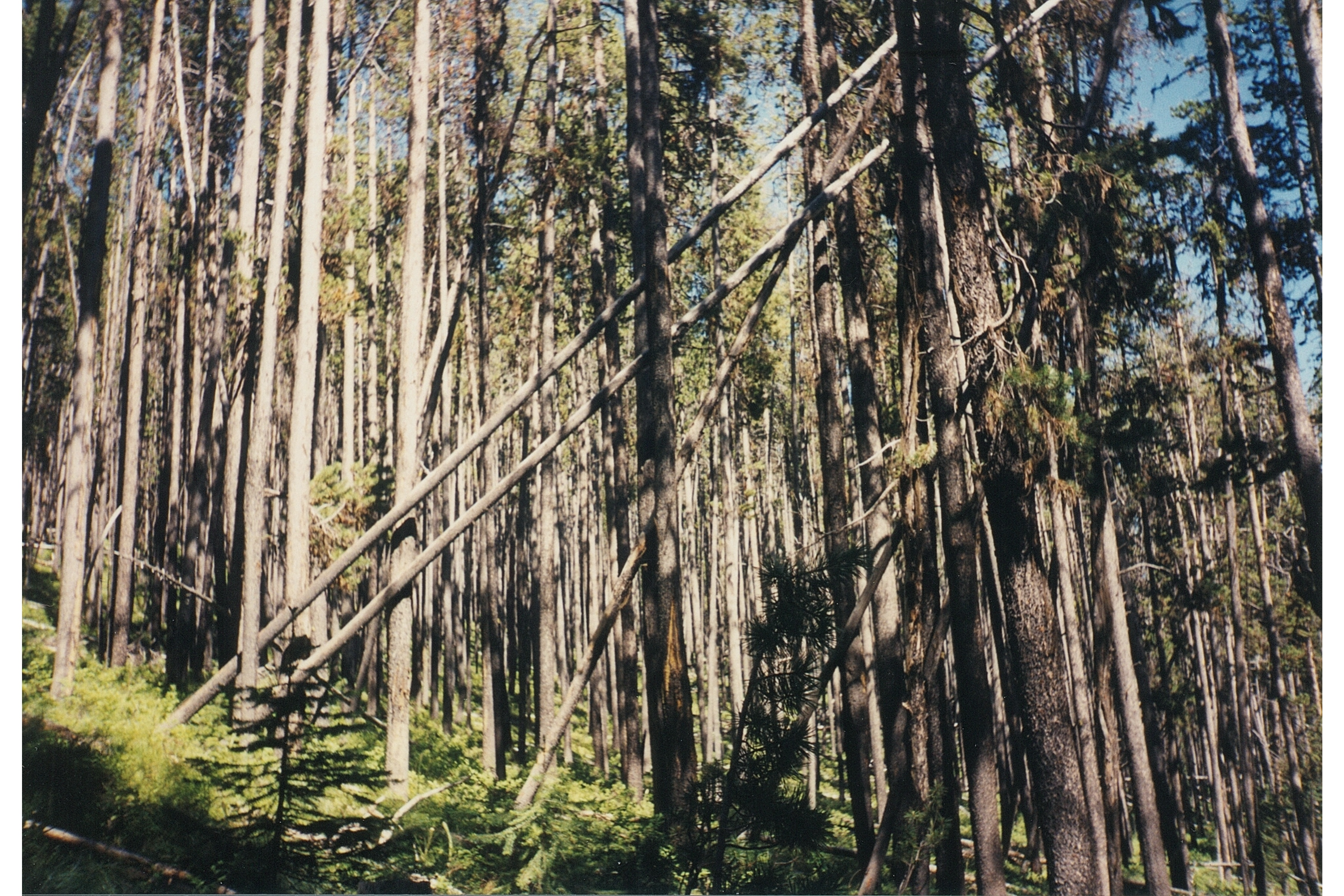 Dense stands of lodgepole pine are (or were) common in the Welcome Creek Wilderness. Photo taken summer 1996 by John David Stutts.